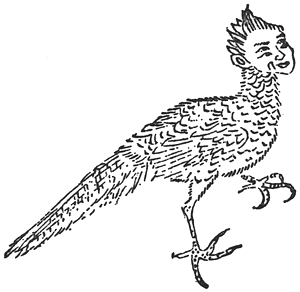 "顒" (Yung, a legendary bird in China) from the Shan Hai Jing (山海经, Chinese picture)